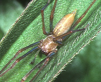 male Cheiracanthium eutittha from Okinawa.